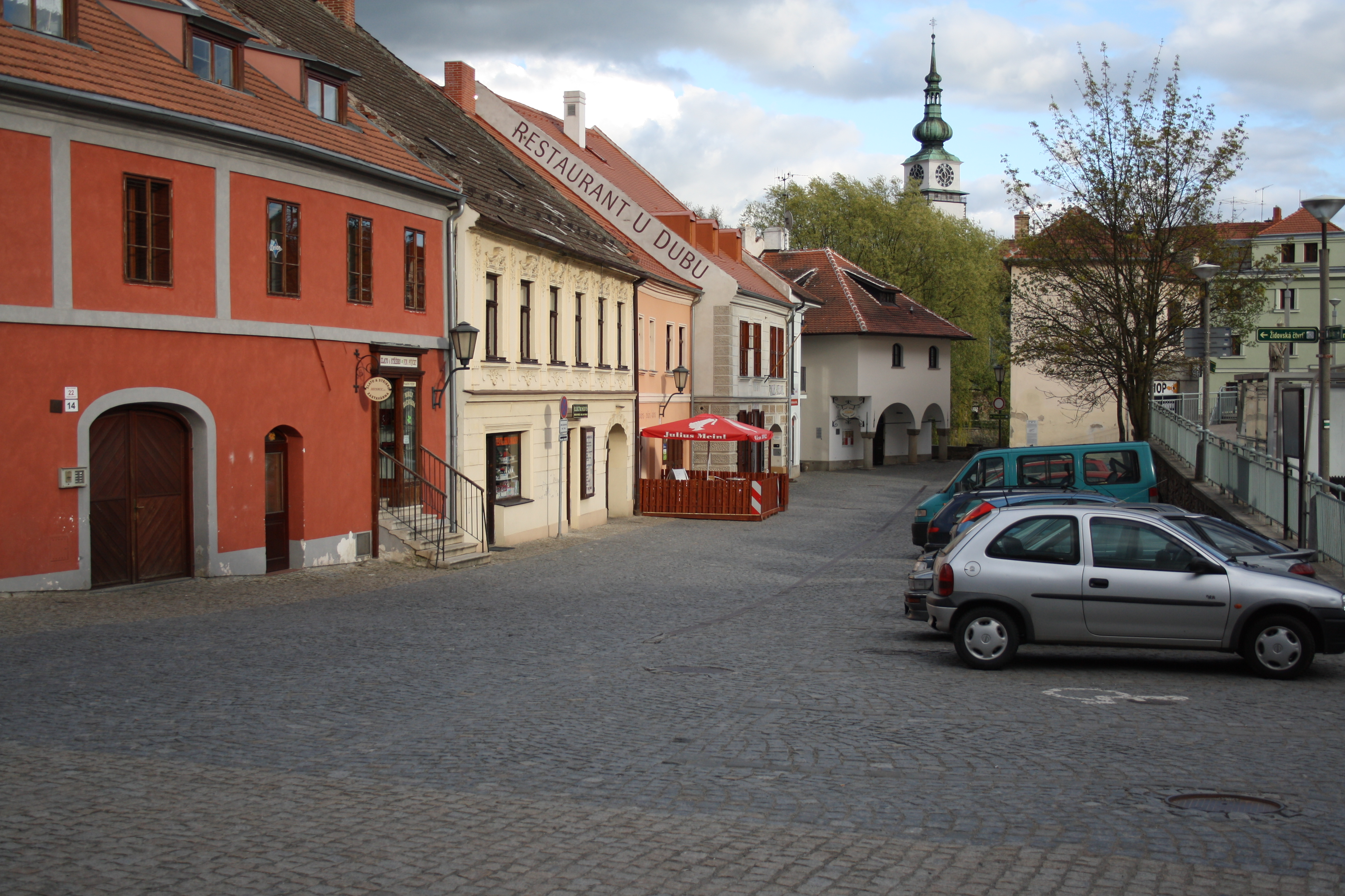 Žerotínovo náměstí in Třebíč, Czech Republic.